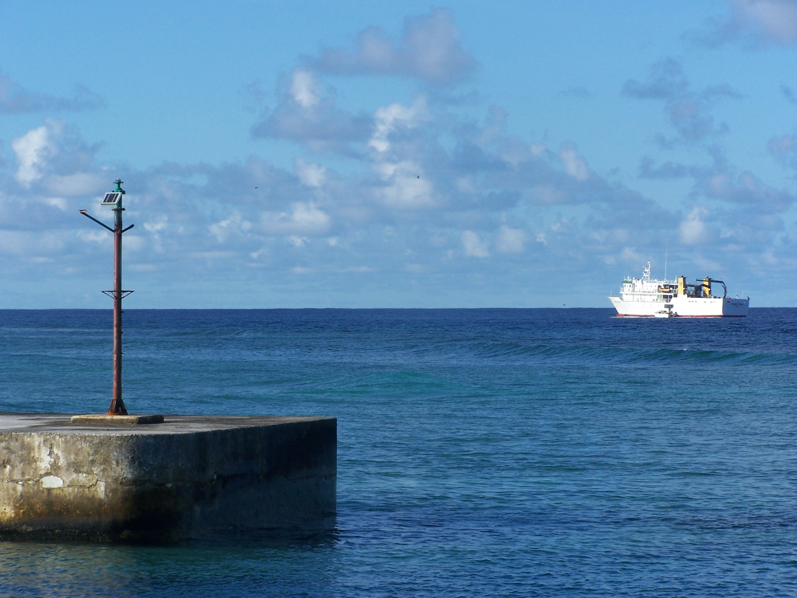 Photo taken from the harbour breakwater on Vaitupu Island. The ship "Monu Folau" is one of two interisland ferries that links the main island (Funafuti) with the 8 outer islands of Tuvalu.